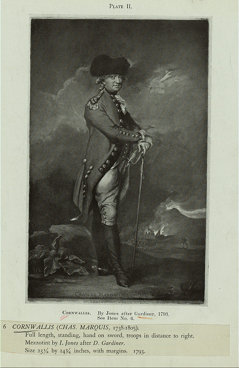 picters of british general Cornwallis